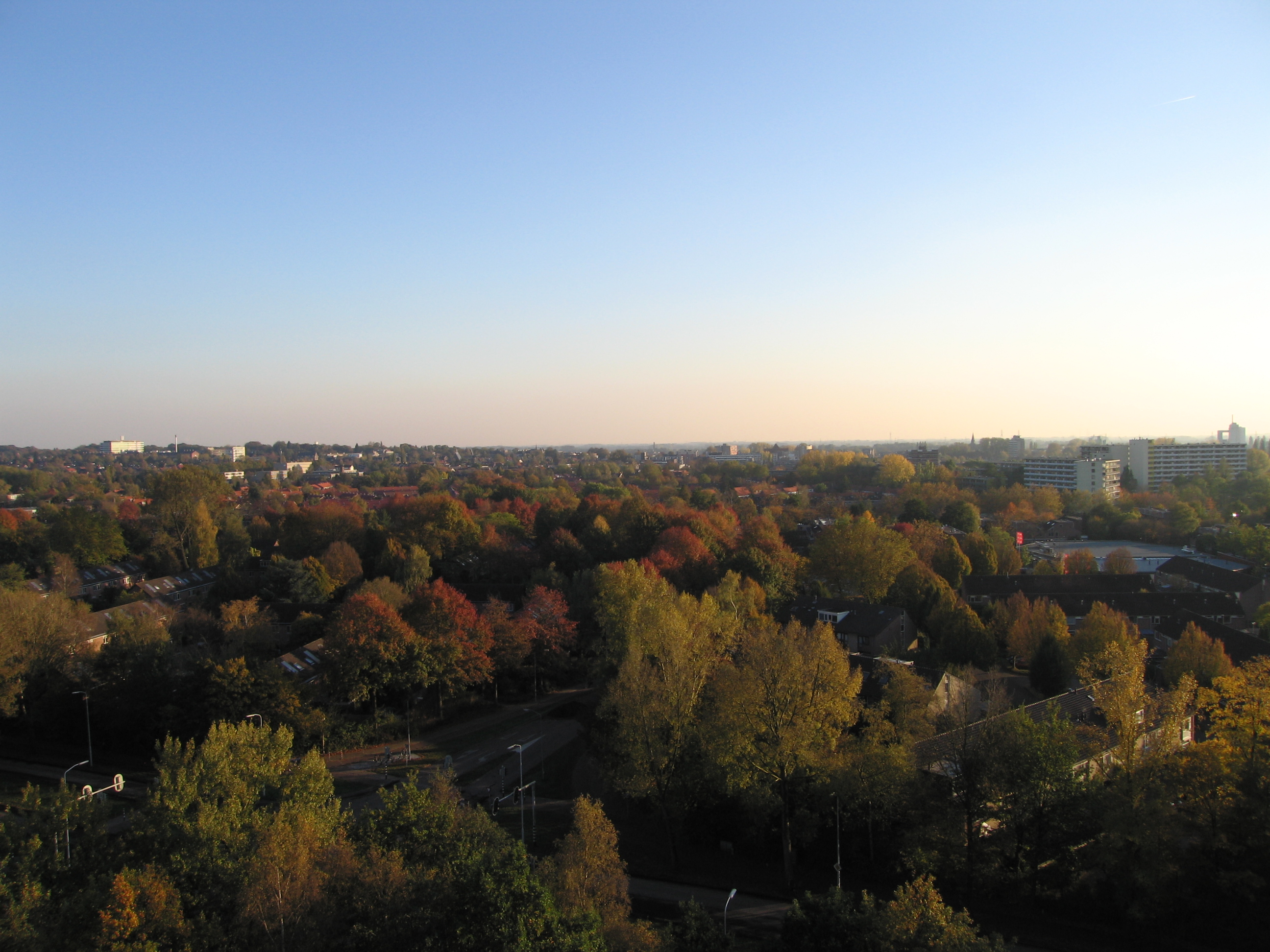 Wageningen at fall. View from "Bornsesteeg"